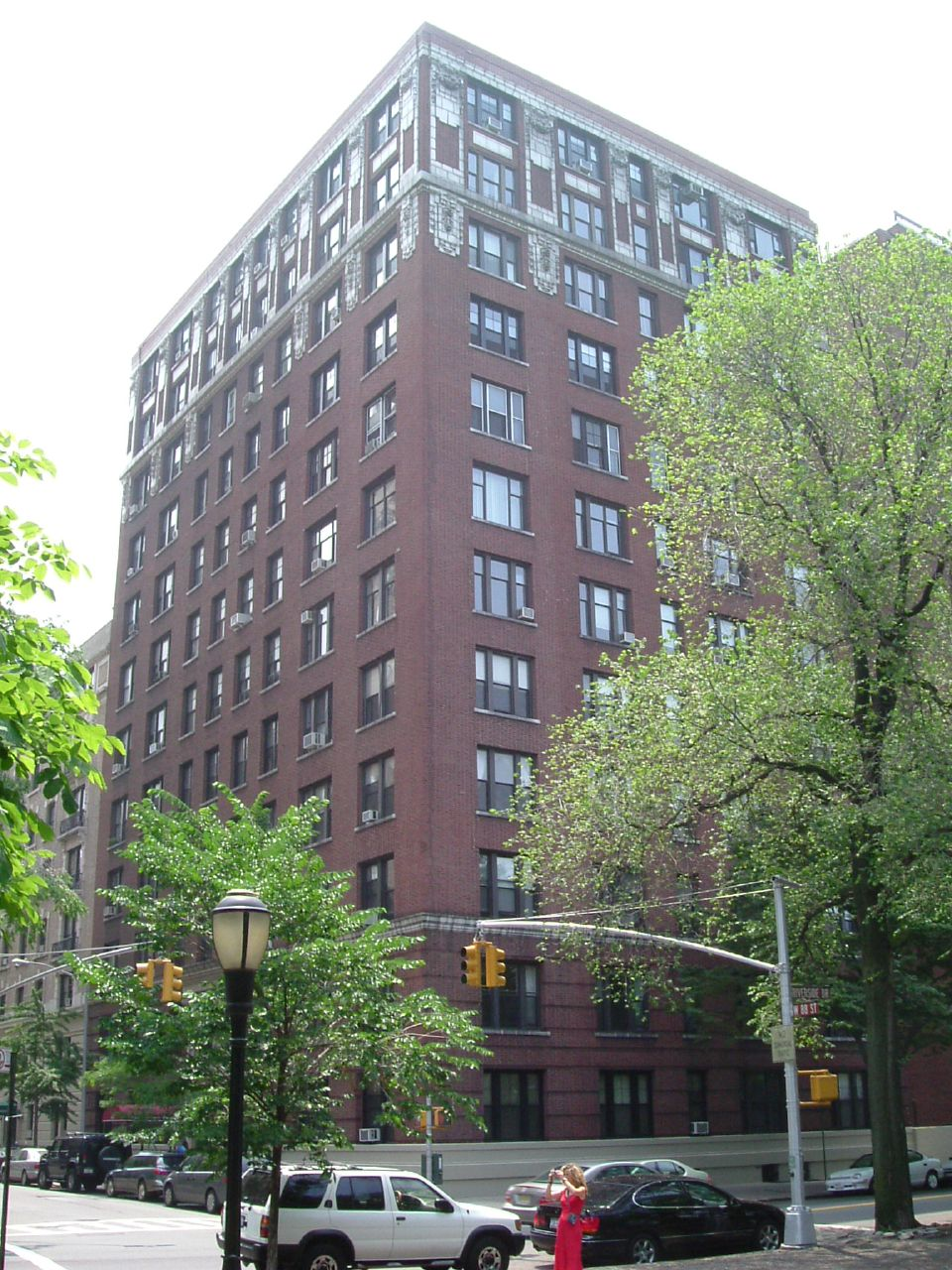 Will & Grace Apartment Building